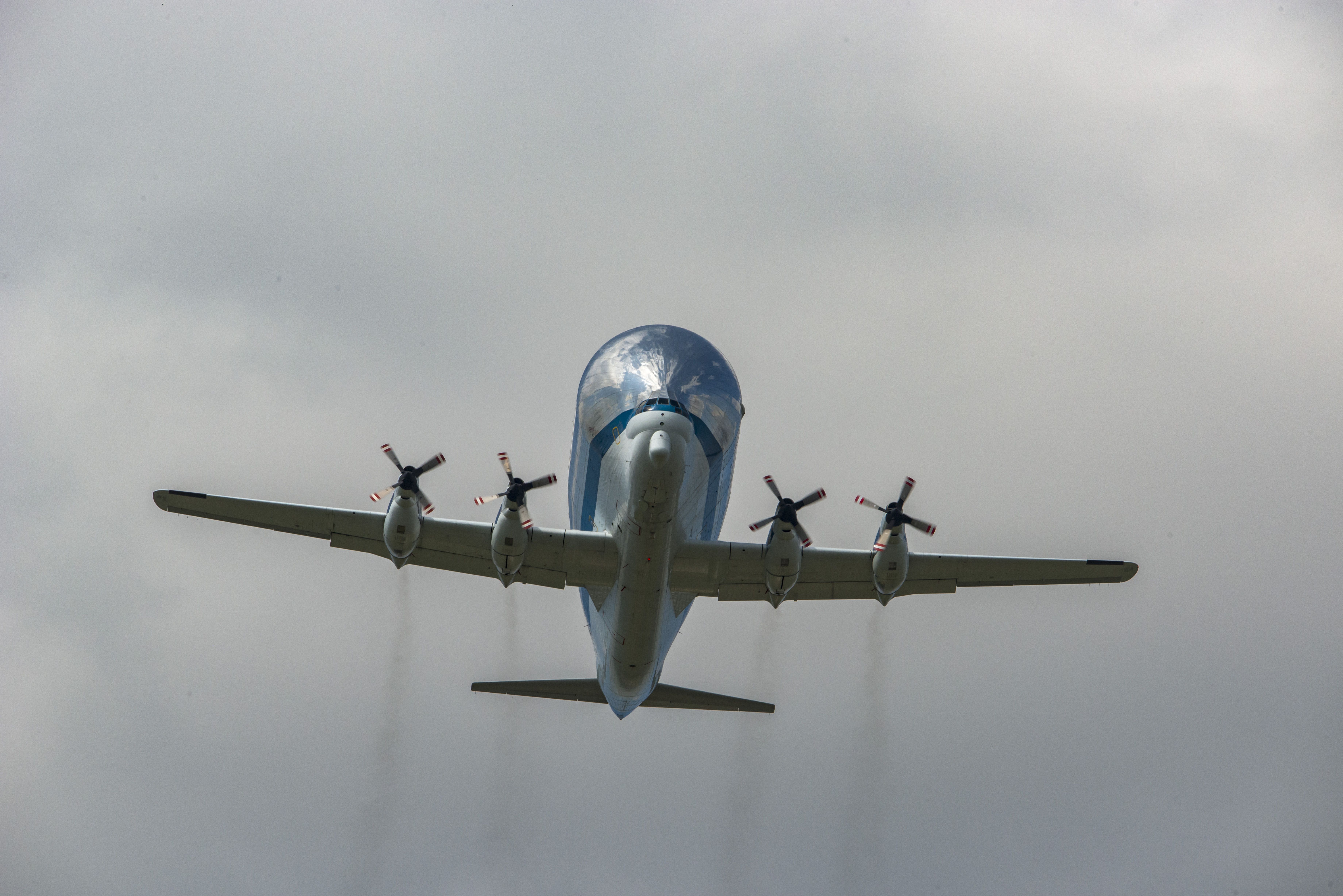 NASA's Super Guppy aircraft arrives to the U.S. Army’s Redstone Airfield in Huntsville, Alabama, April 2, to pick up flight hardware for NASA’s Space Launch System – its new, deep-space rocket that will enable astronauts to begin their journey to explore destinations far into the solar system. The Guppy will depart on Tuesday, April 3 to deliver the Orion stage adapter to NASA’s Kennedy Space Center in Florida for flight preparations. On Exploration Mission-1, the first integrated flight of the SLS and the Orion spacecraft, the adapter will connect Orion to the rocket and carry 13 CubeSats as secondary payloads.